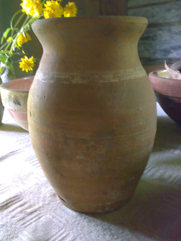 Latgale pottery.